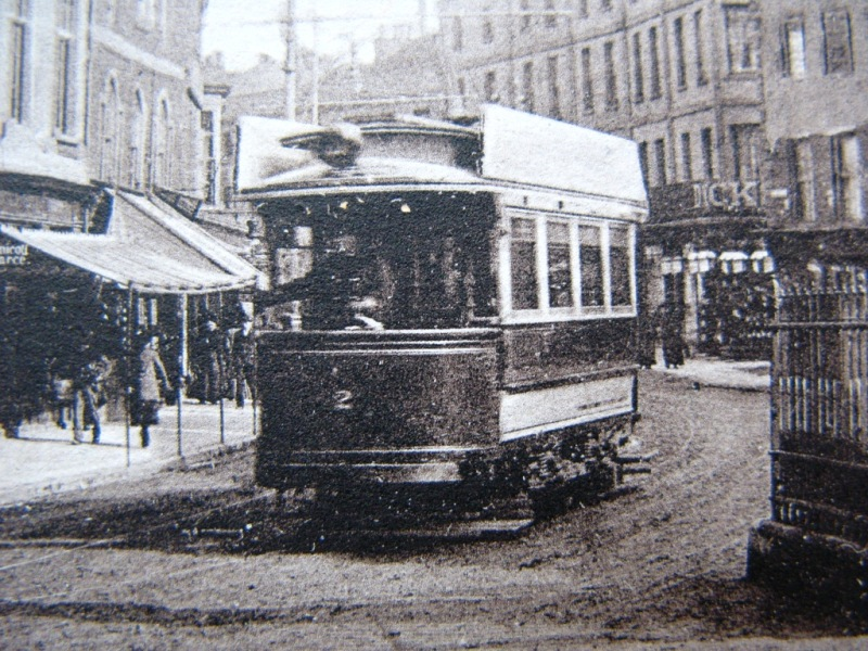 Car number two of the Taunton Electric Traction Company in Fore Street, Taunton, Somerset, England.